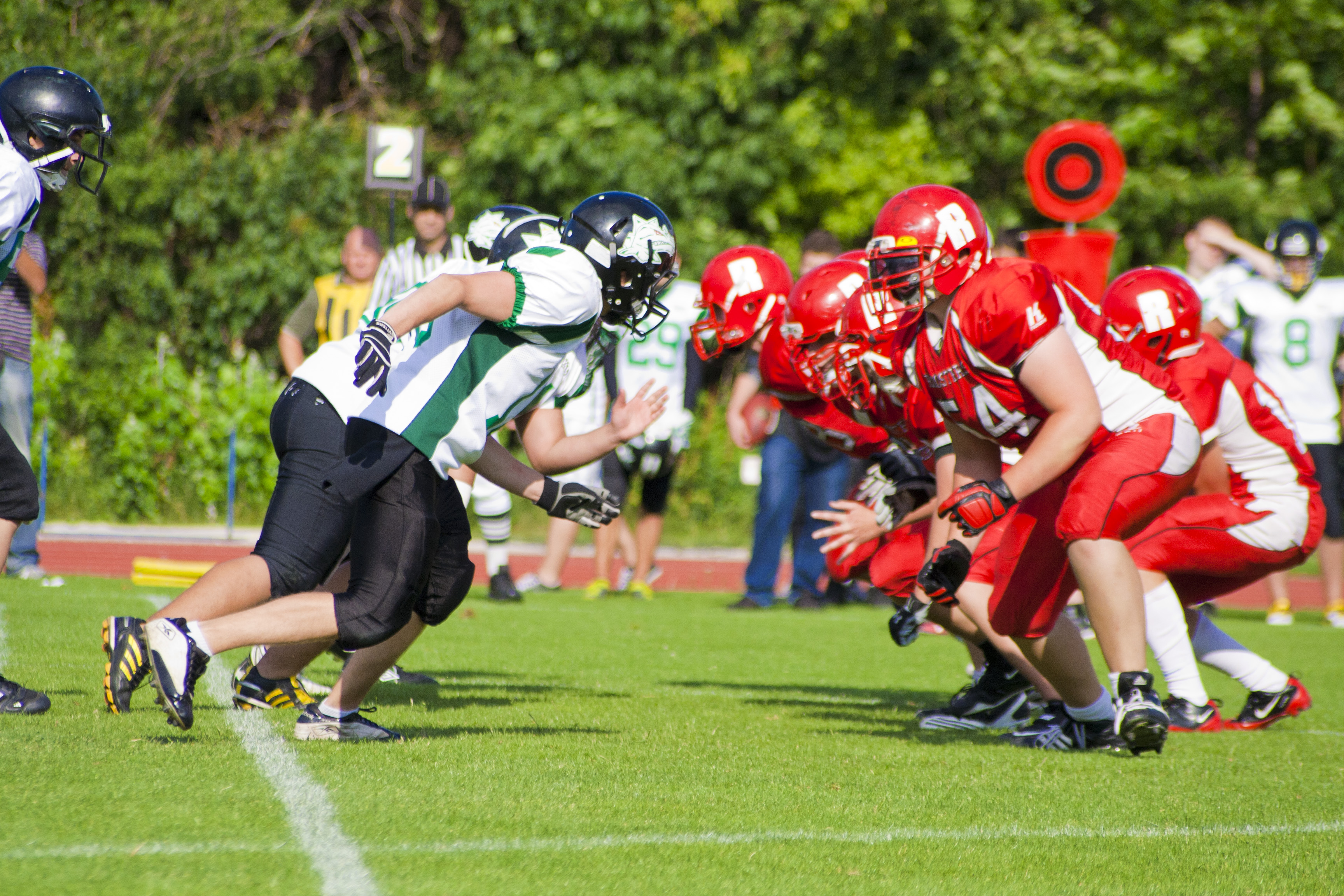 Helsinki Roosters challenging the Danube Dragons.